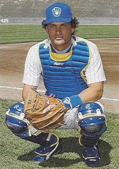 Image cropped from a baseball card of Bill Schroeder from the 1985 Milwaukee Brewers Police set.